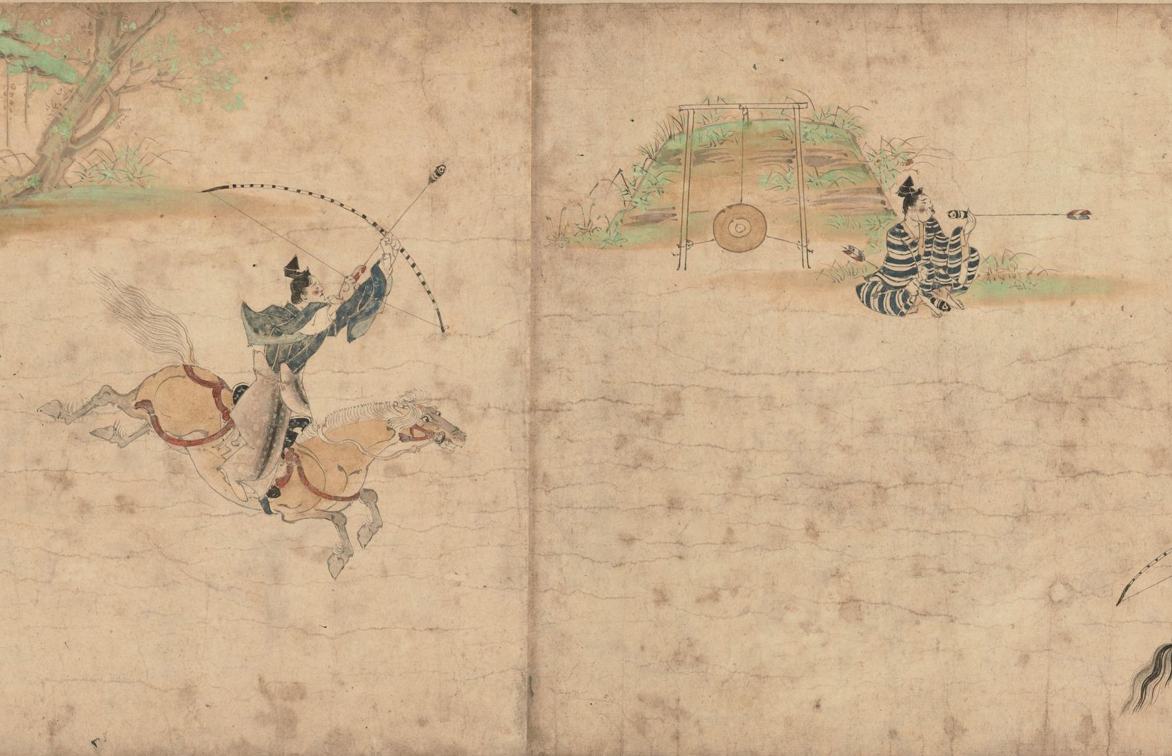 『男衾三郎絵詞』（東京博物館蔵）より、笠懸練習風景。鎌倉時代。From the "Obusuma saburou ekotoba", "Kasagake" traninig. Kamakura era. Tokyo National Museum collection.